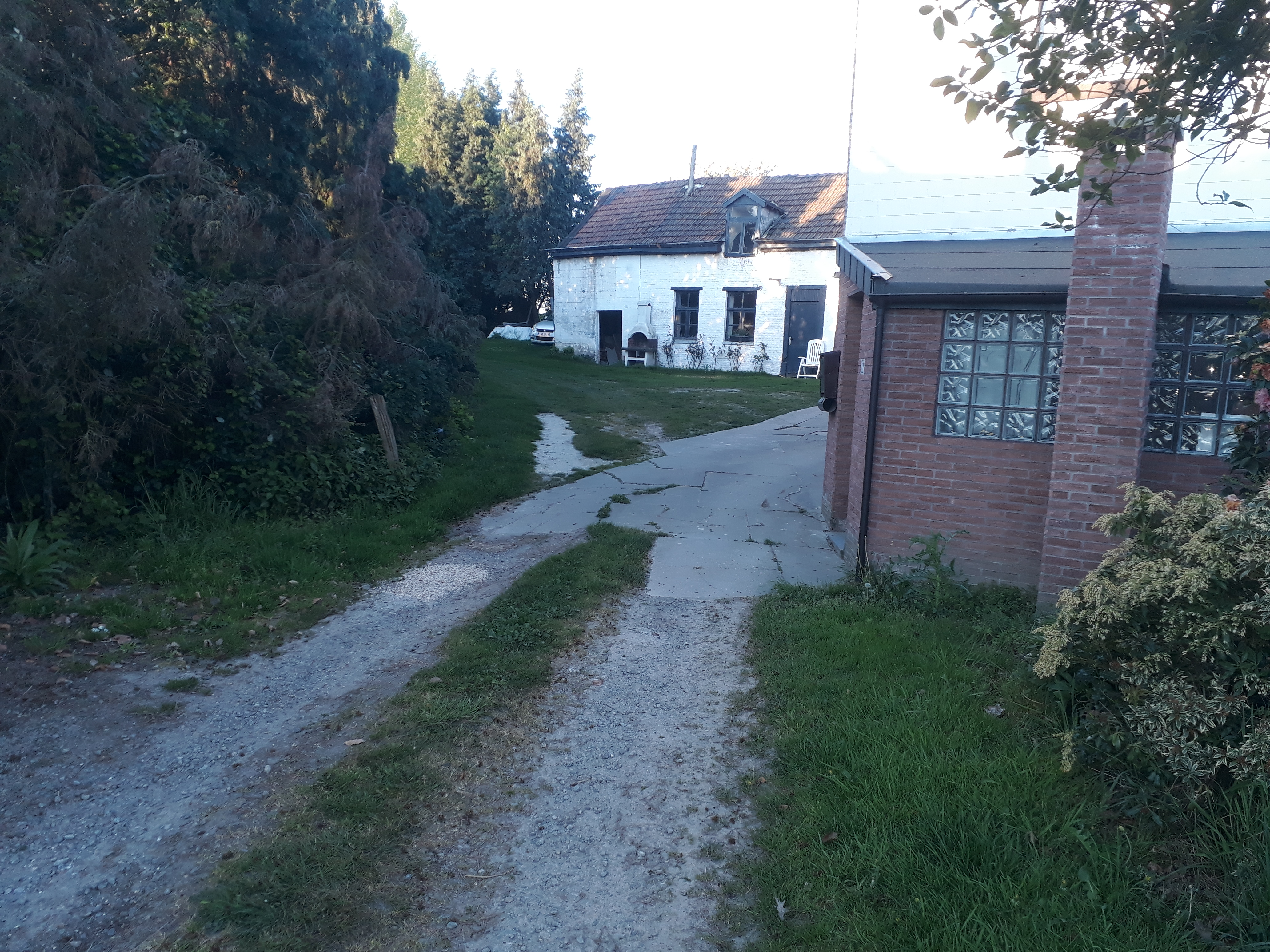 Métairie à Haren